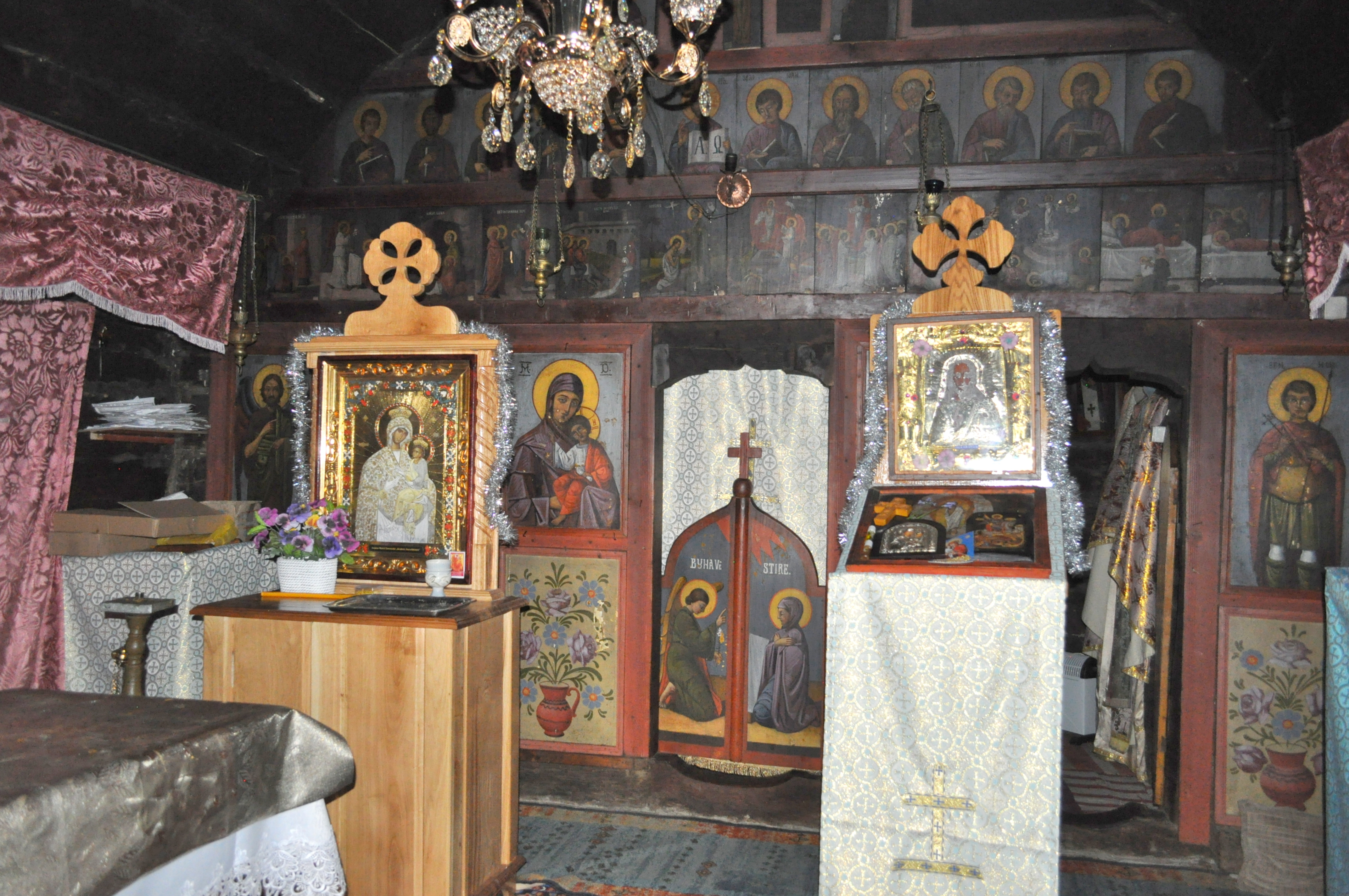 Saint George's church in Rugi, Gorj county, Romania